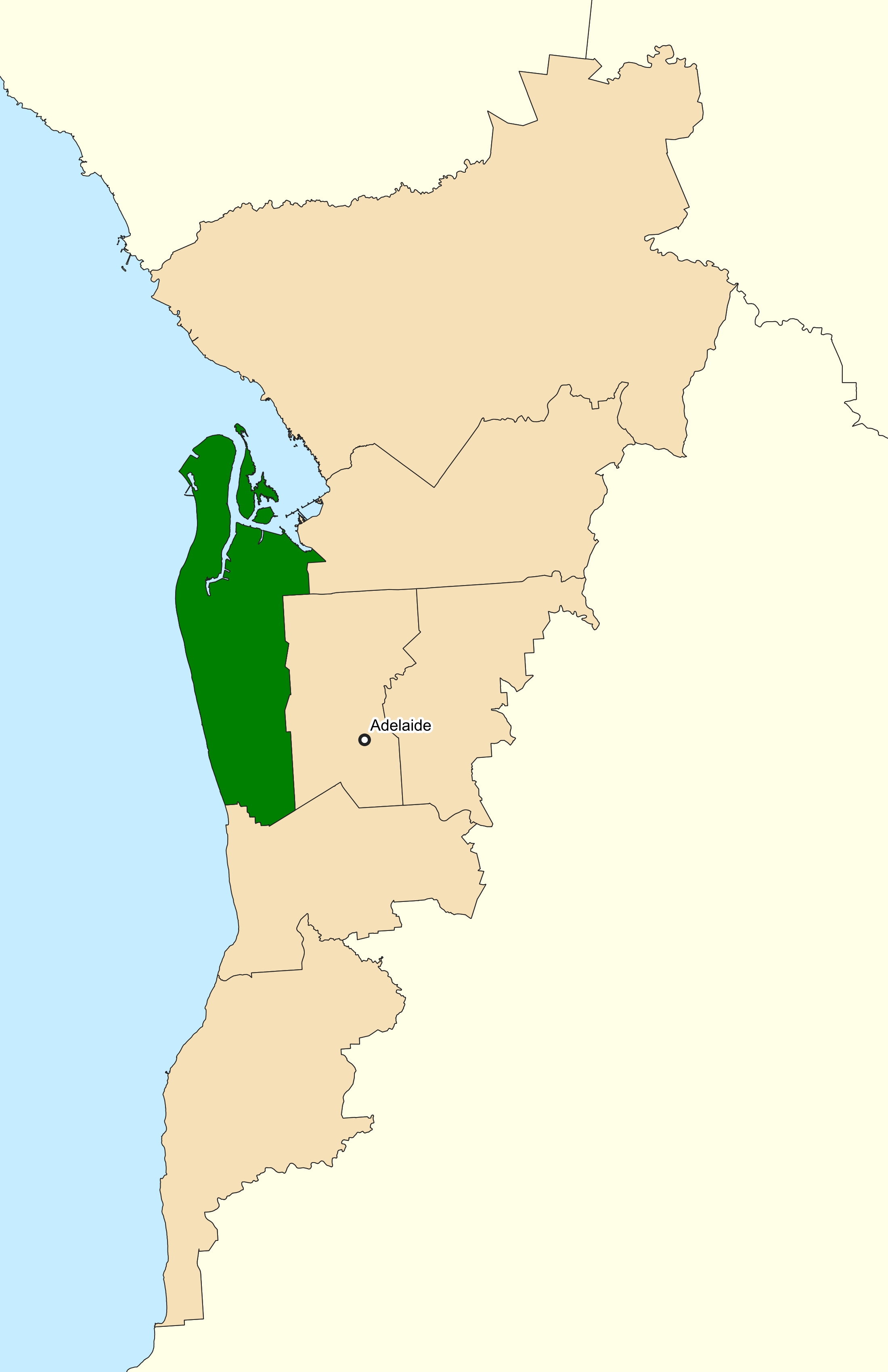 Location of the Australian federal electoral division of Hindmarsh (dark green) in Greater Adelaide, South Australia as of the 2019 Australian federal election. Incorporates or developed using Administrative Boundaries ©PSMA Australia Limited licensed by the Commonwealth of Australia under Creative Commons Attribution 4.0 International licence (CC BY 4.0).